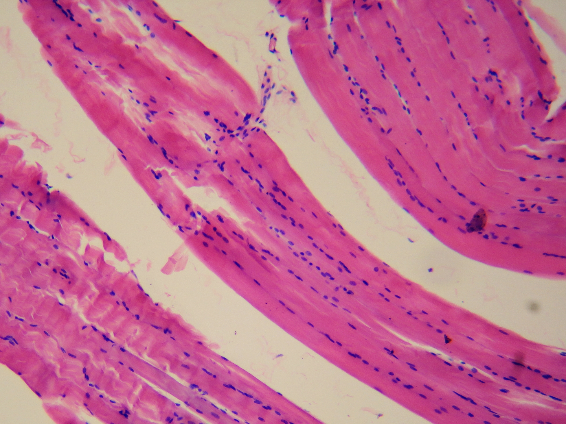 Histology of smooth muscle.